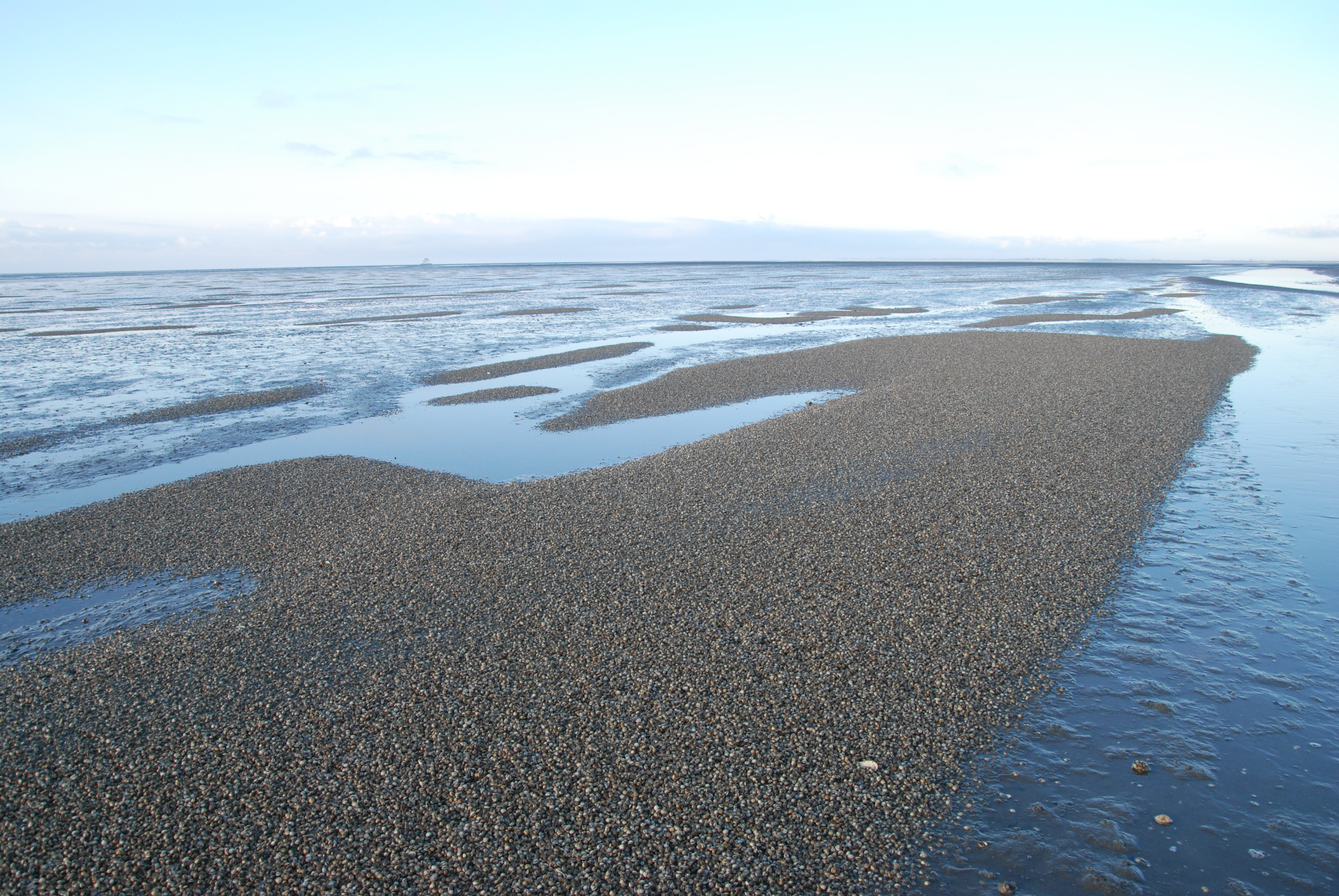 Cockle bed with cockles (Cerastoderma edule) near De Cocksdorp, Texel